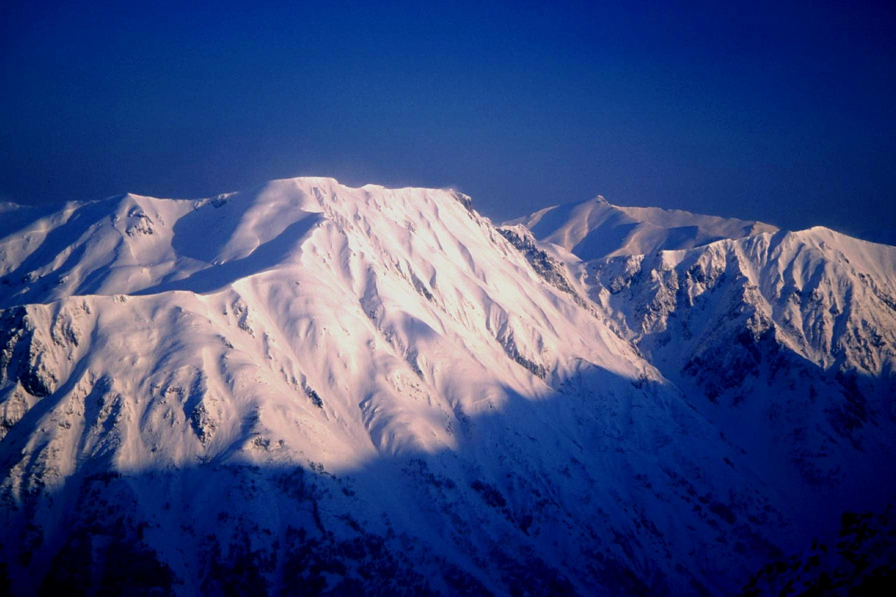 Mount_Nukedo_from_Mount_Nishihotaka